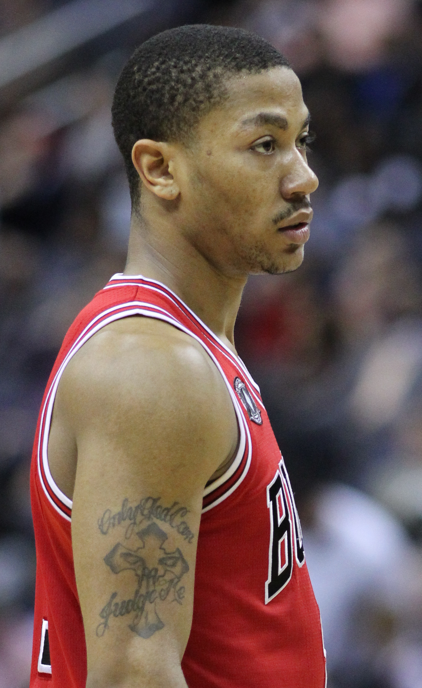 Derrick Rose #1 of the Chicago Bulls at the Verizon Center on February 28, 2011 in Washington, DC.